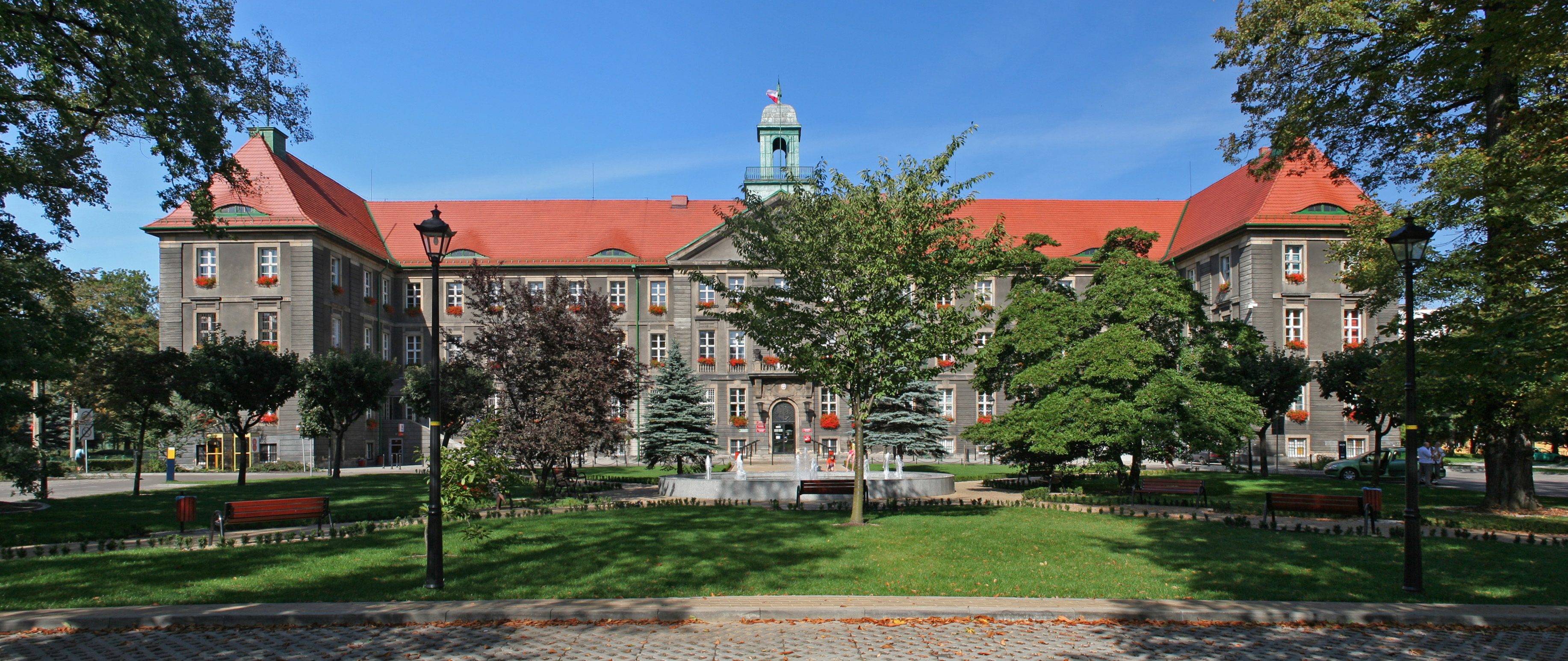 City hall in Bytom.